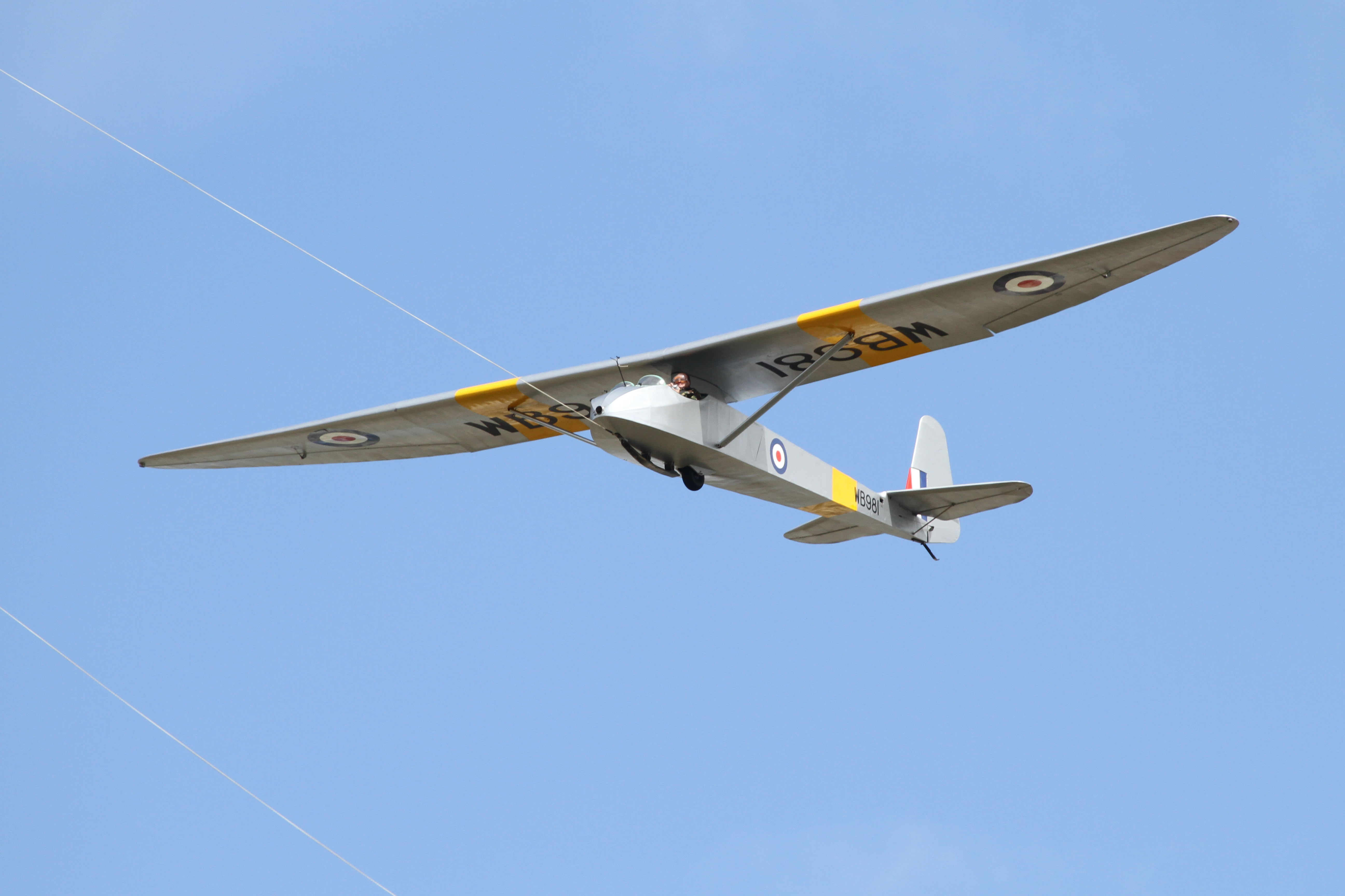 RIAT 2011